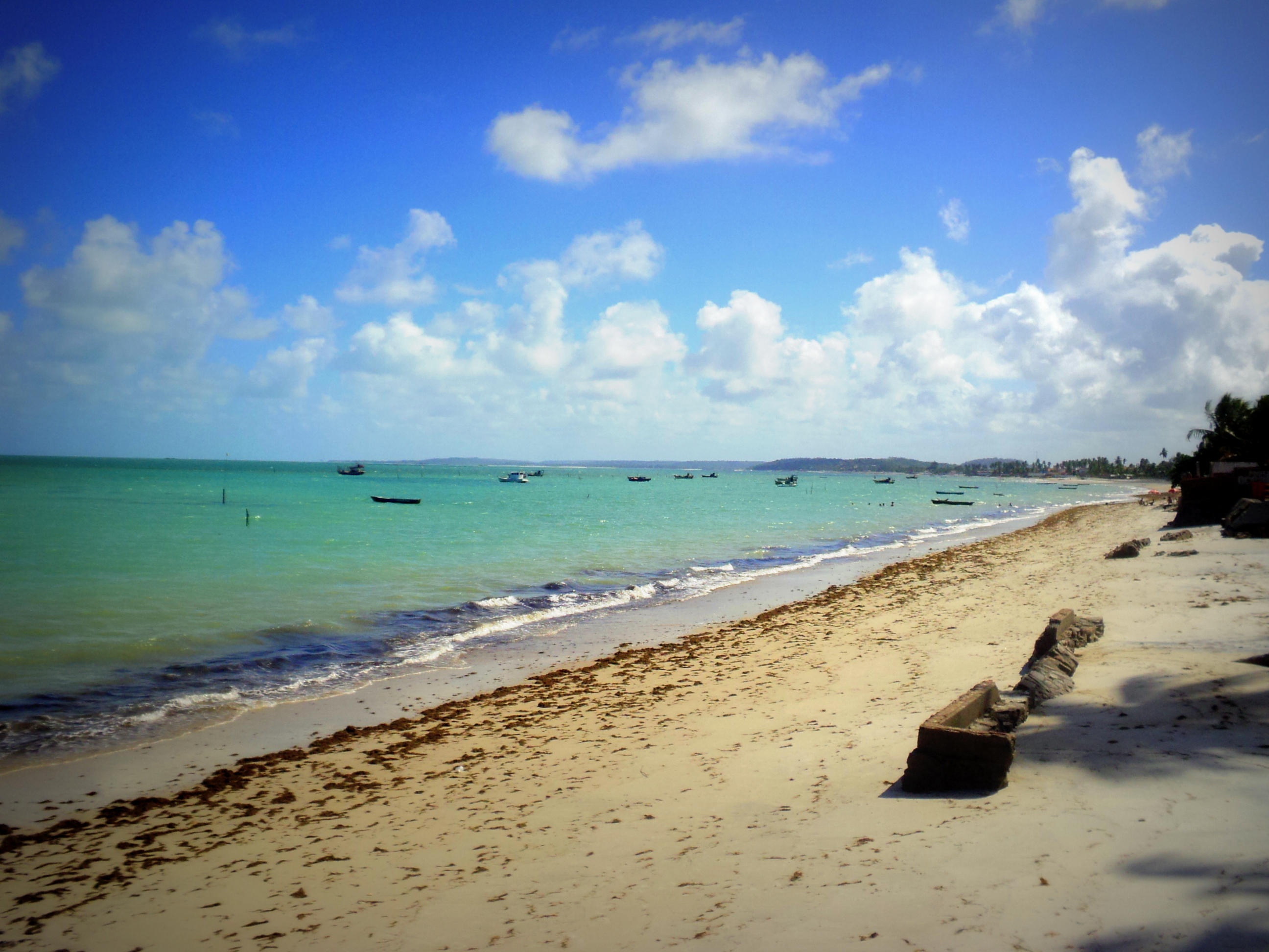 Pontas de Pedras Beach